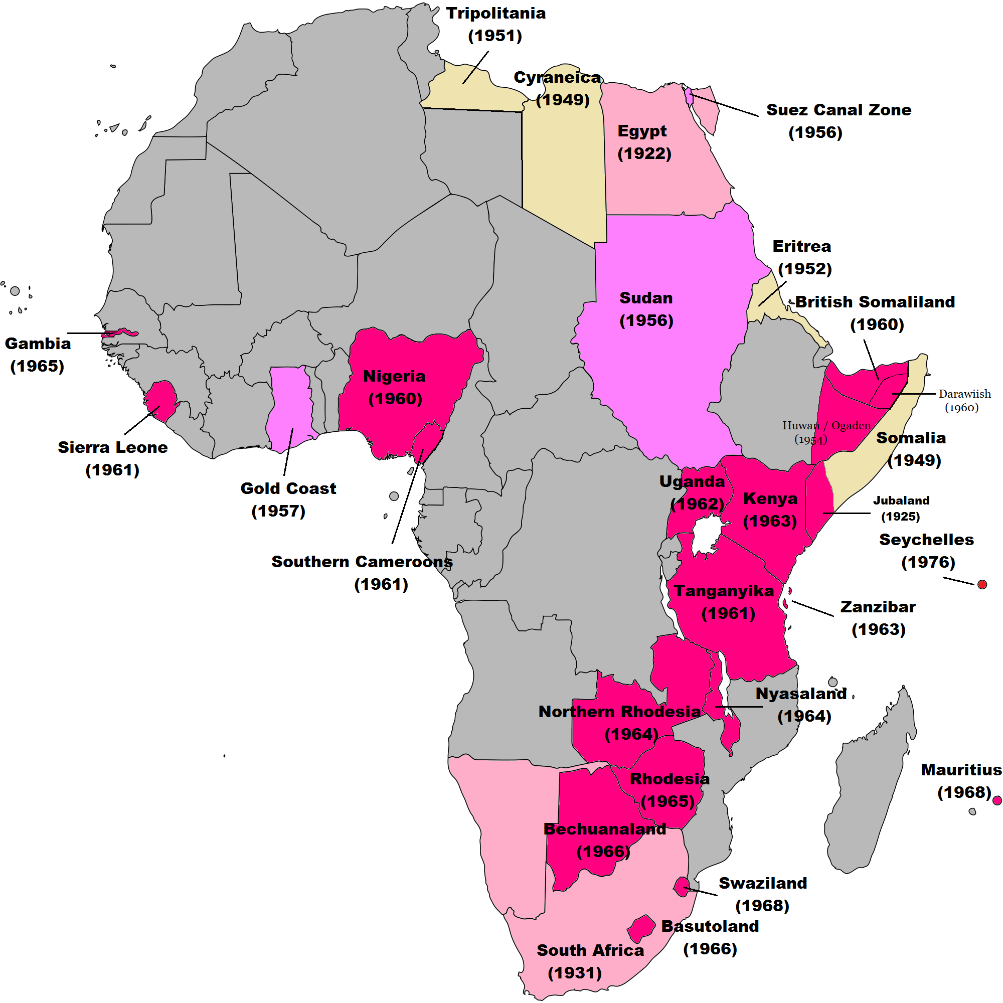 Map of British decolonisation in Africa. The beige areas were under British military administration after WW2. The different shades of pink refer to the stages of decolonization according to decades.